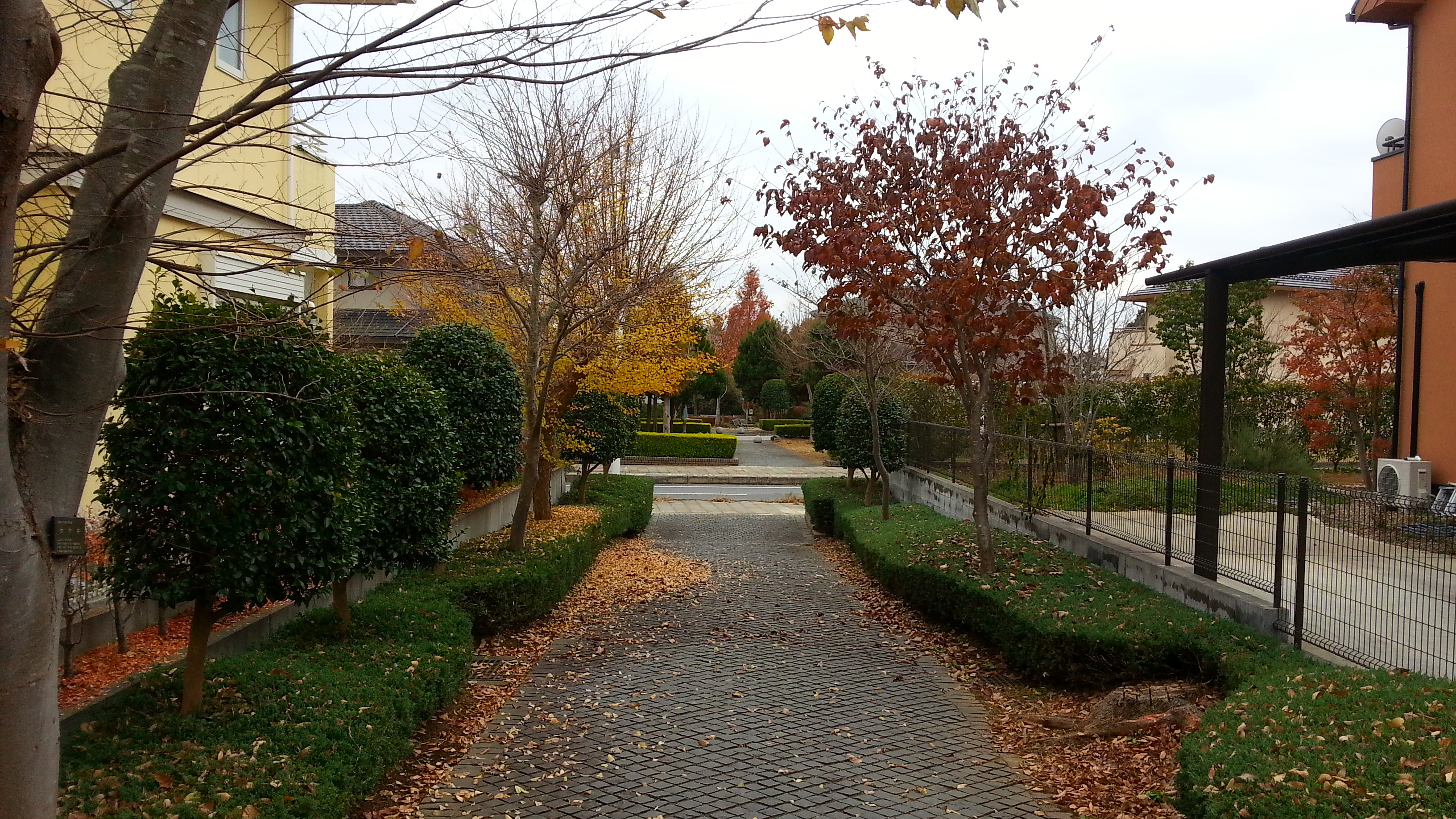 Nagakuni dai Tsuchiura